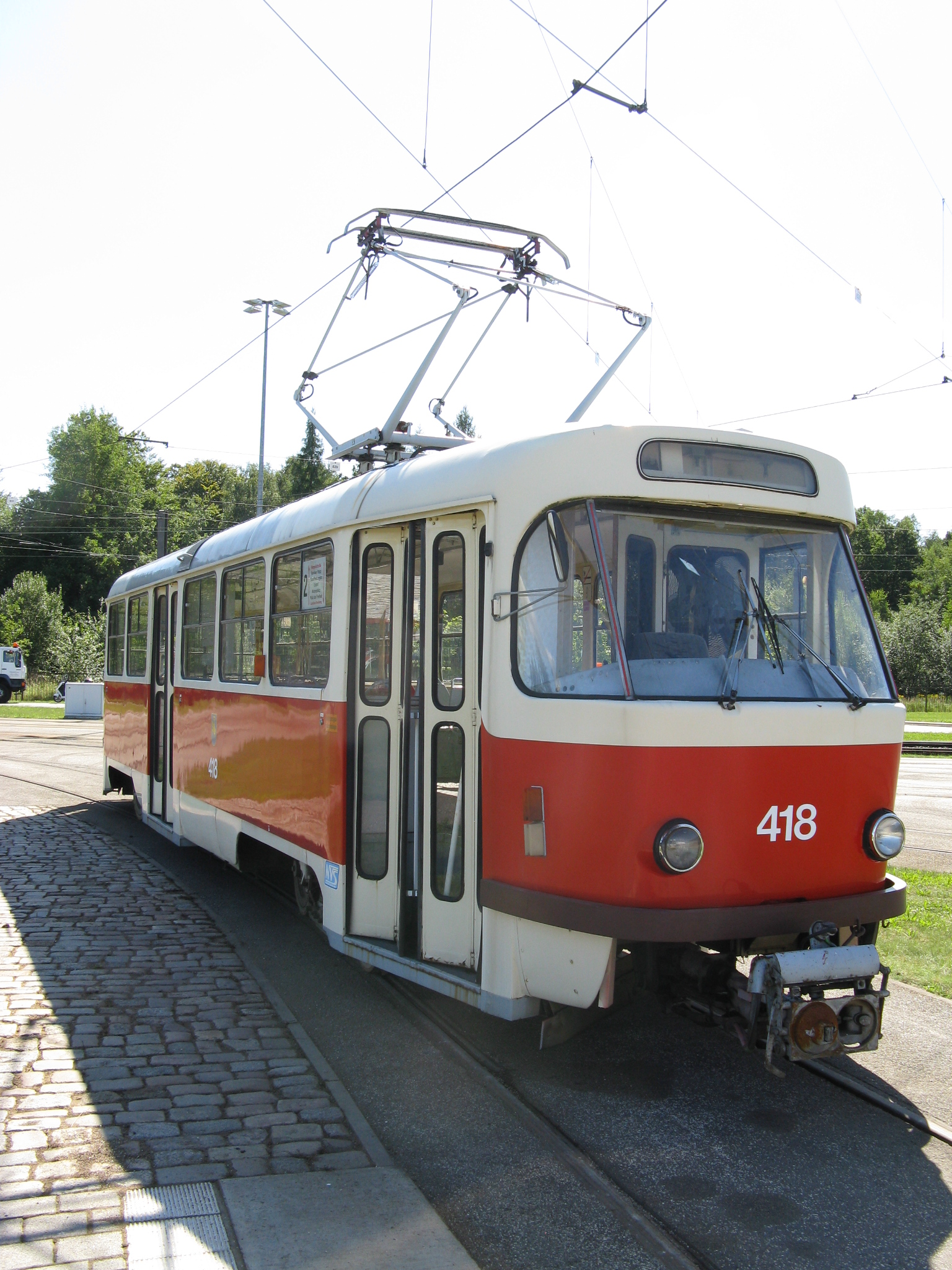 Public transport Schwerin, Depot Haselholz, Schwerin, Germany Tatra tram 418